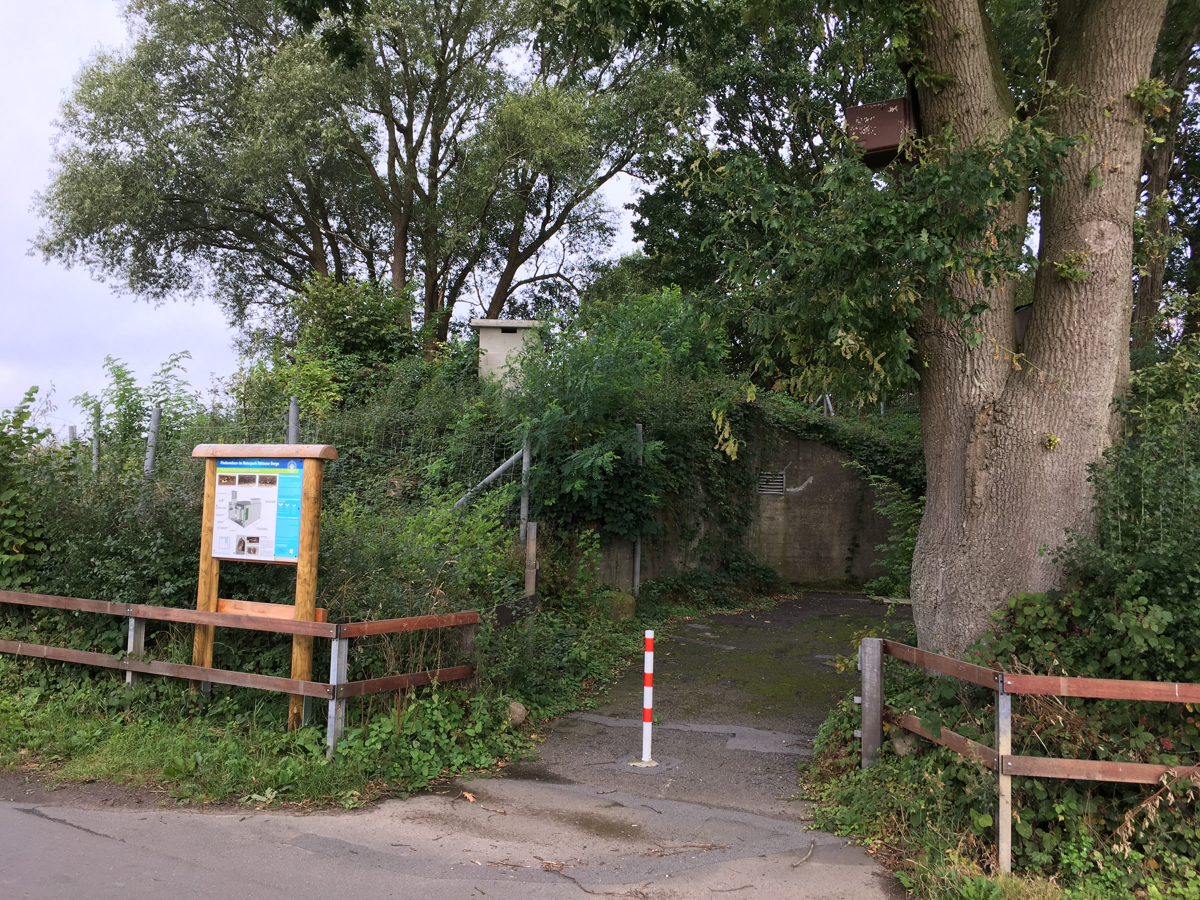 Der Bunker dient heute als Fledermausquartier.